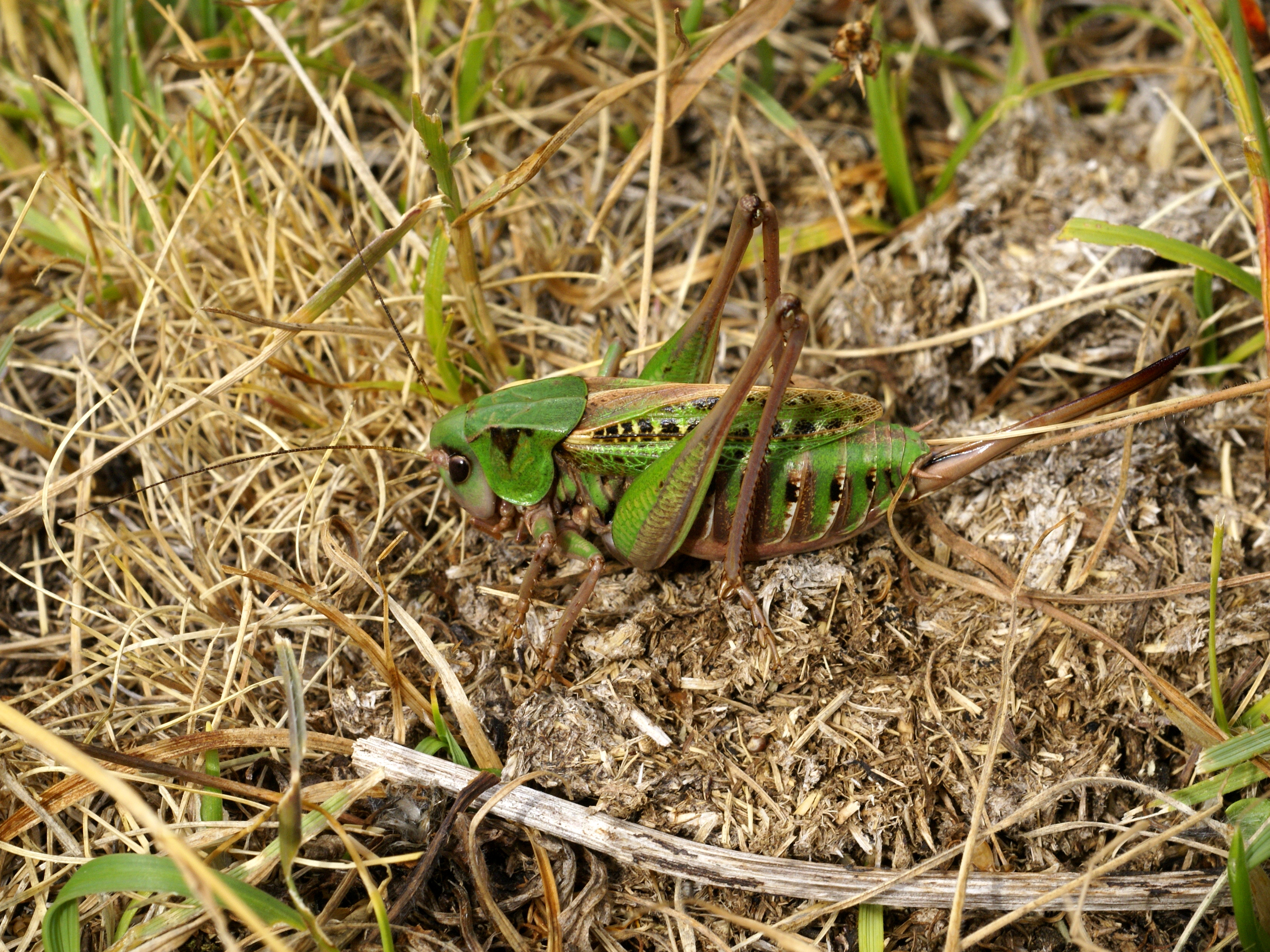 Wart-biter Bush Cricket near El Serrat in Andorra.